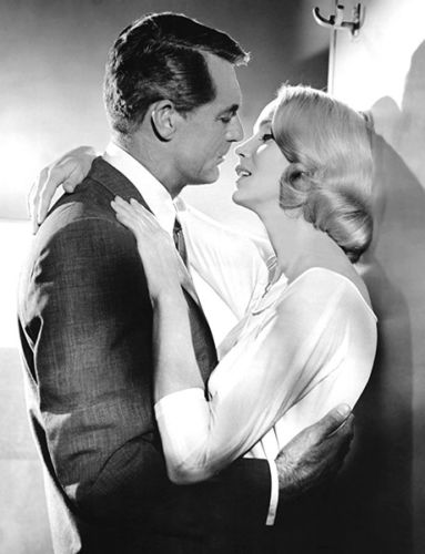 Photo of Cary Grant & Eva Marie Saint from the film North by Northwest (1959). See also film still. No copyright notice.